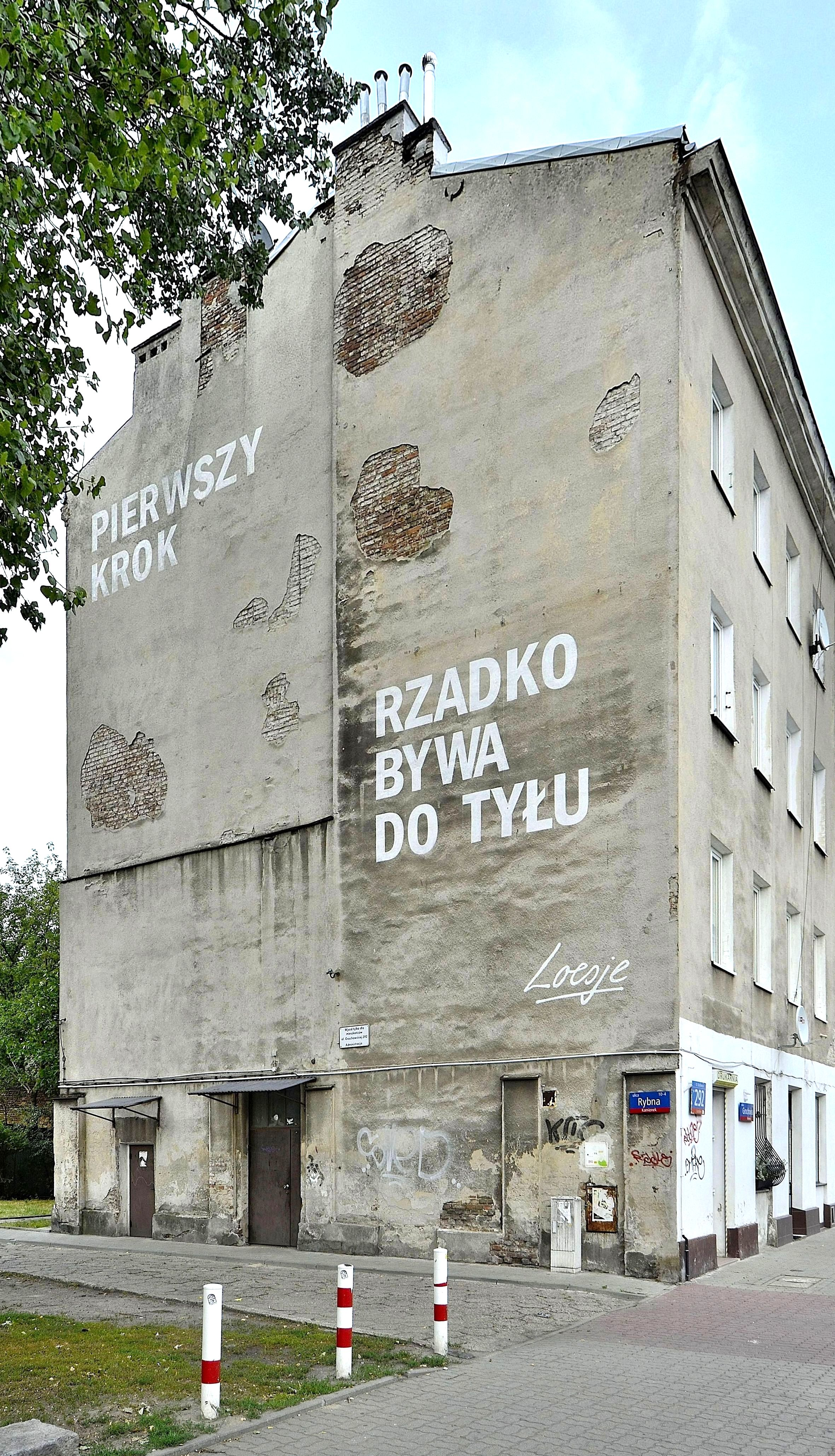 Loesje's mural at 292 Grochowska Street in Warsaw